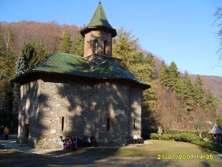 the Prislop monastery near Silvașu de Sus village, Hunedoara County, Romania